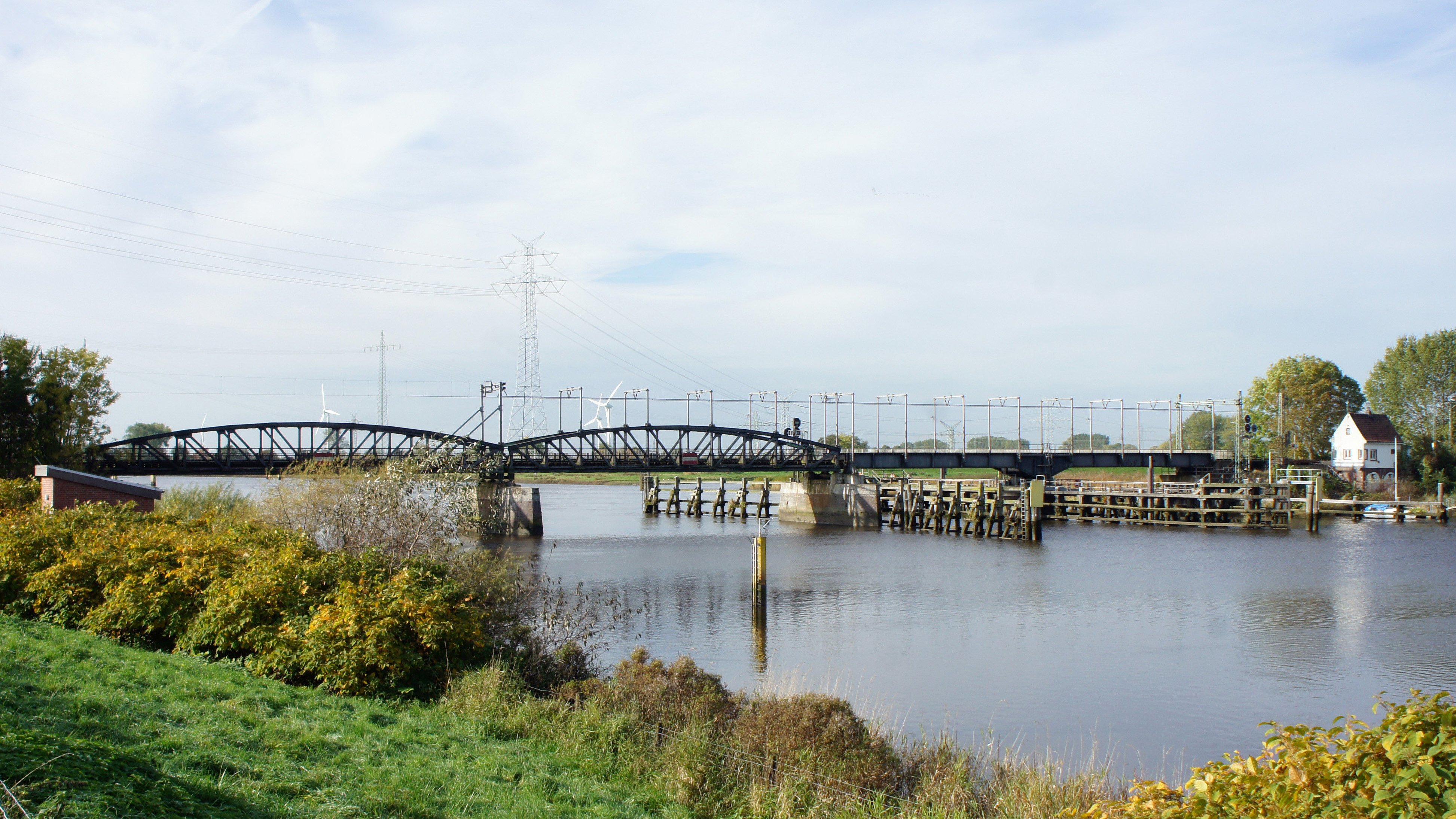 Railway swing Bridge over the Hunte near Elsfleth-Orth